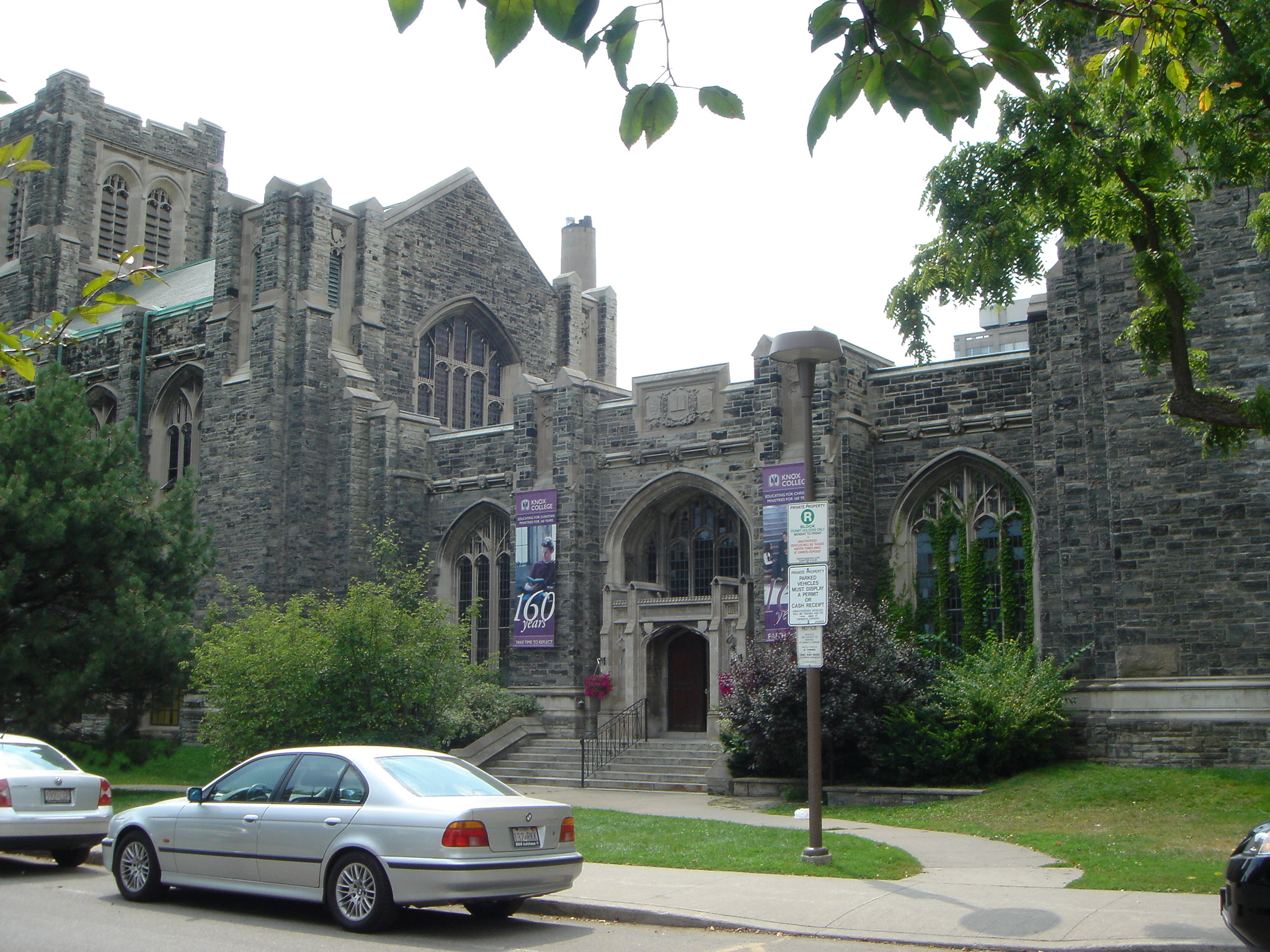 Knox College, Toronto